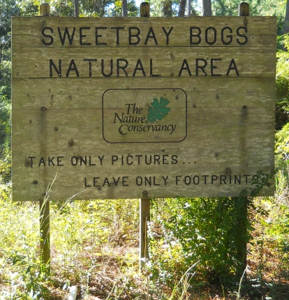 Sign at entrance to Sweetbay Bogs Preserve, Stone County, Mississippi, USA